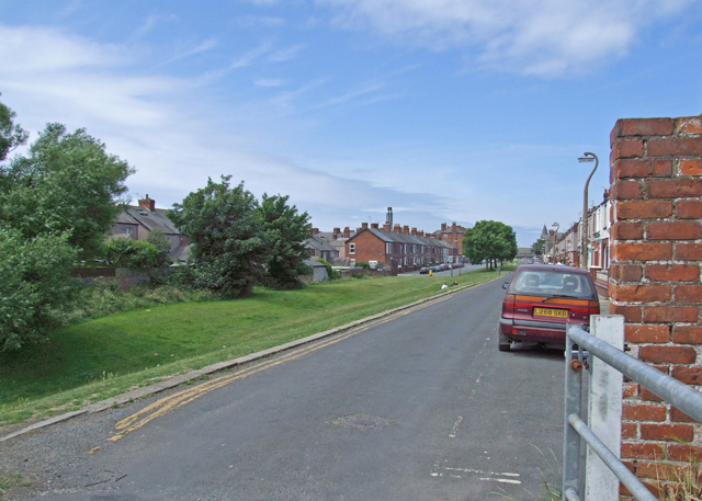 Island Road Barrow Island The grassed area running diagonally across the photograph is the site of the former single track railway branch line which separated the east and west sides of Island Road. The railway brought workers from the surrounding area to work in the shipbuilding and associated engineering works in Barrow.